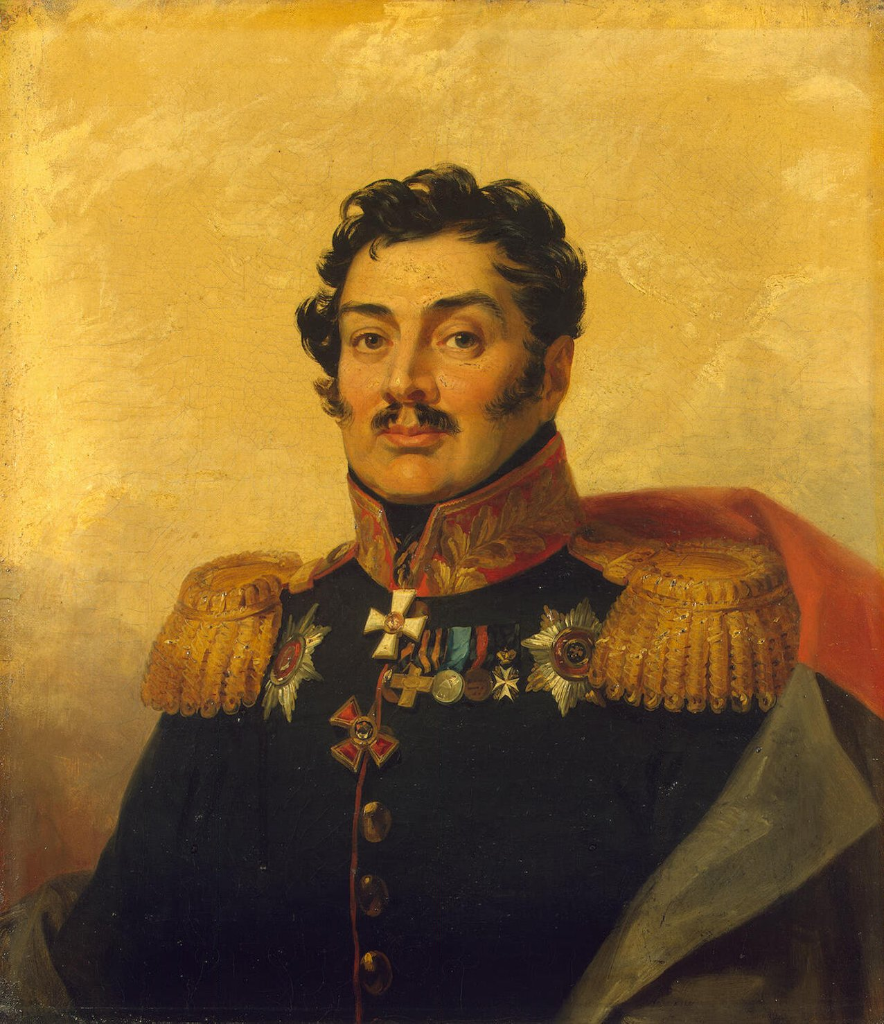 Dmitry Dmitrievich Shepelev (1771 – 1841) Russian lieutenant general, descended from the Shepelev noble lineage.